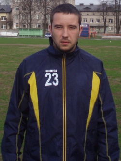 Pavel Ryzhevski, Belarus football player.